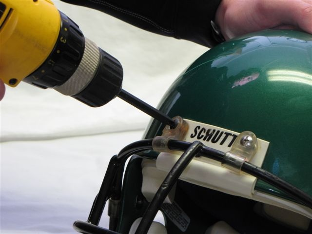 Unscrewing face mask loop fastener